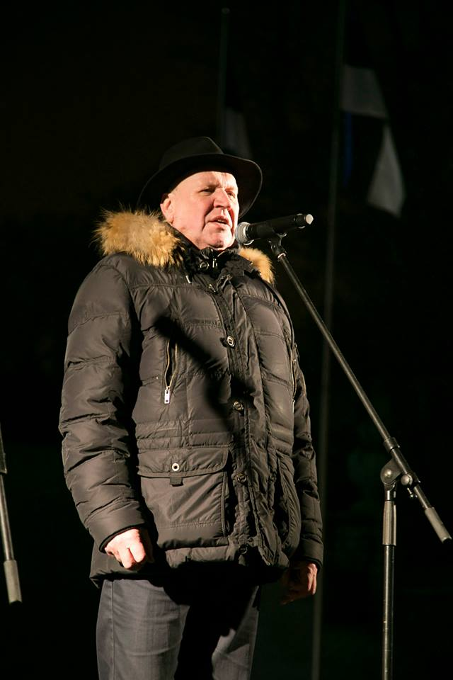 Mart Helme giving a speech